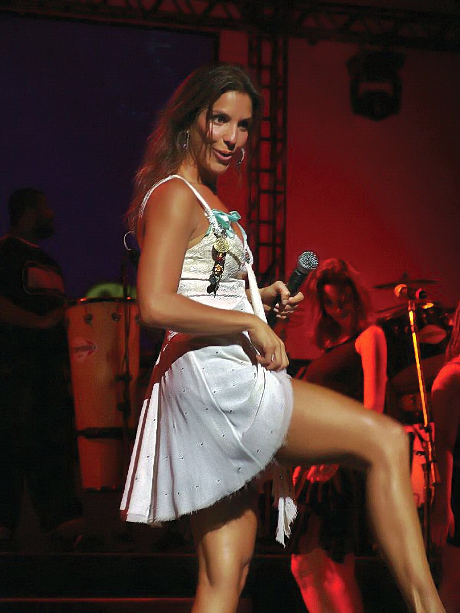 Brazilian singer Ivete Sangalo.